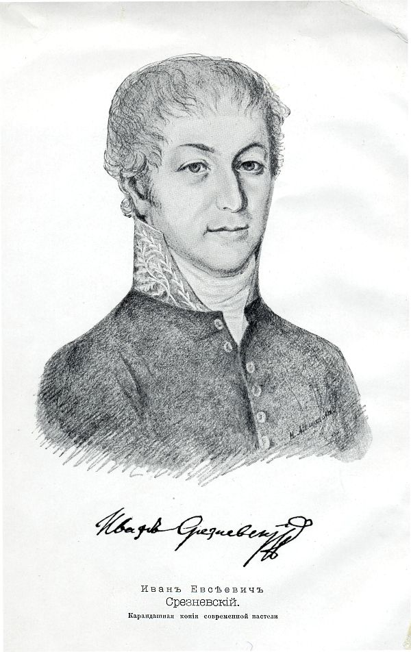 Sreznevsky Ivan Yevseyevich